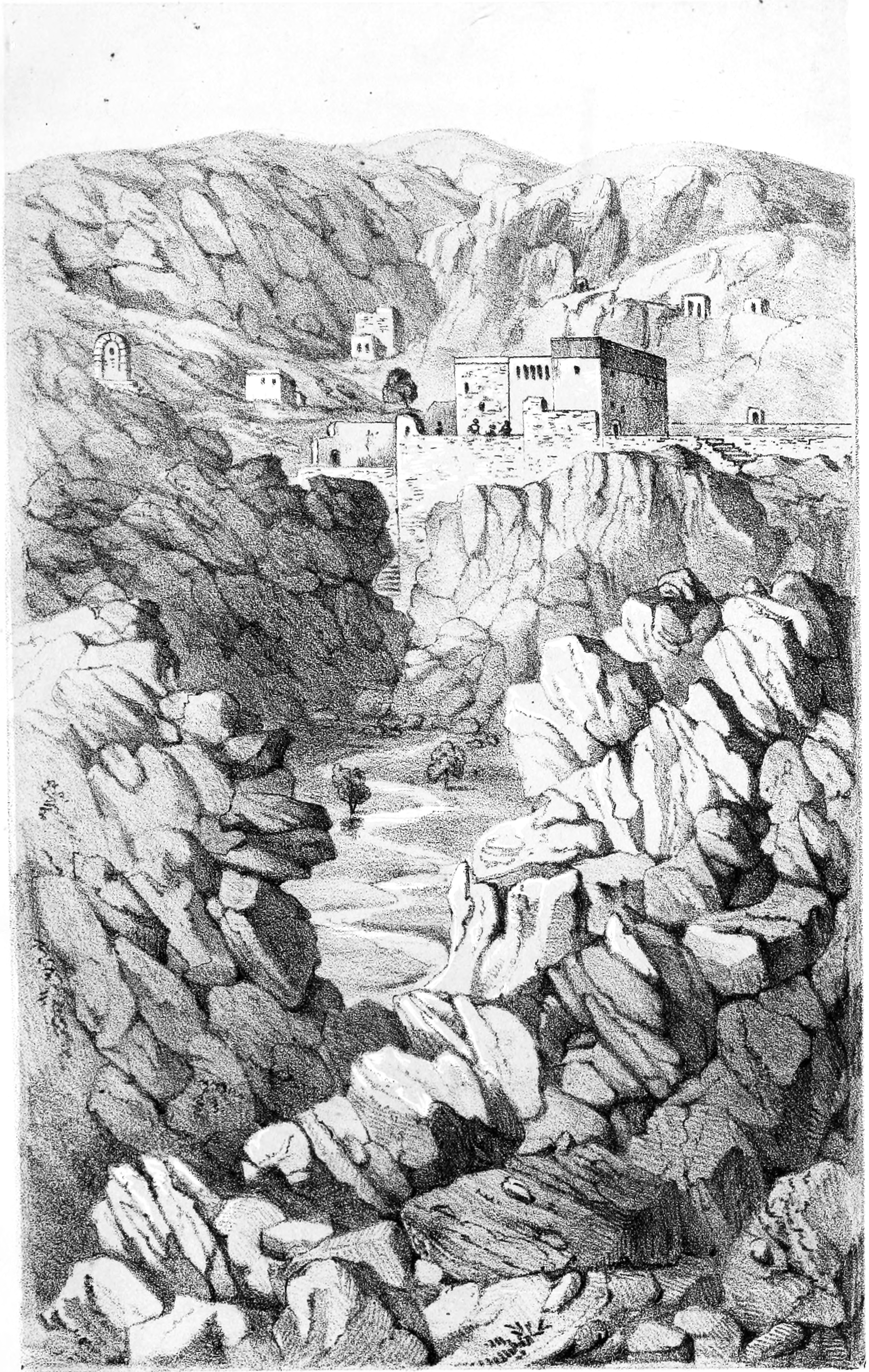 The Convent of Rabban Hormuzd, from George Percy Badger's The Nestorians and their Rituals, vol. 1 (1852); sketch based on an 1843 visit by Badger